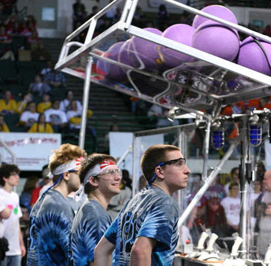 Fairport High School FIRST Robotics Competition team in action